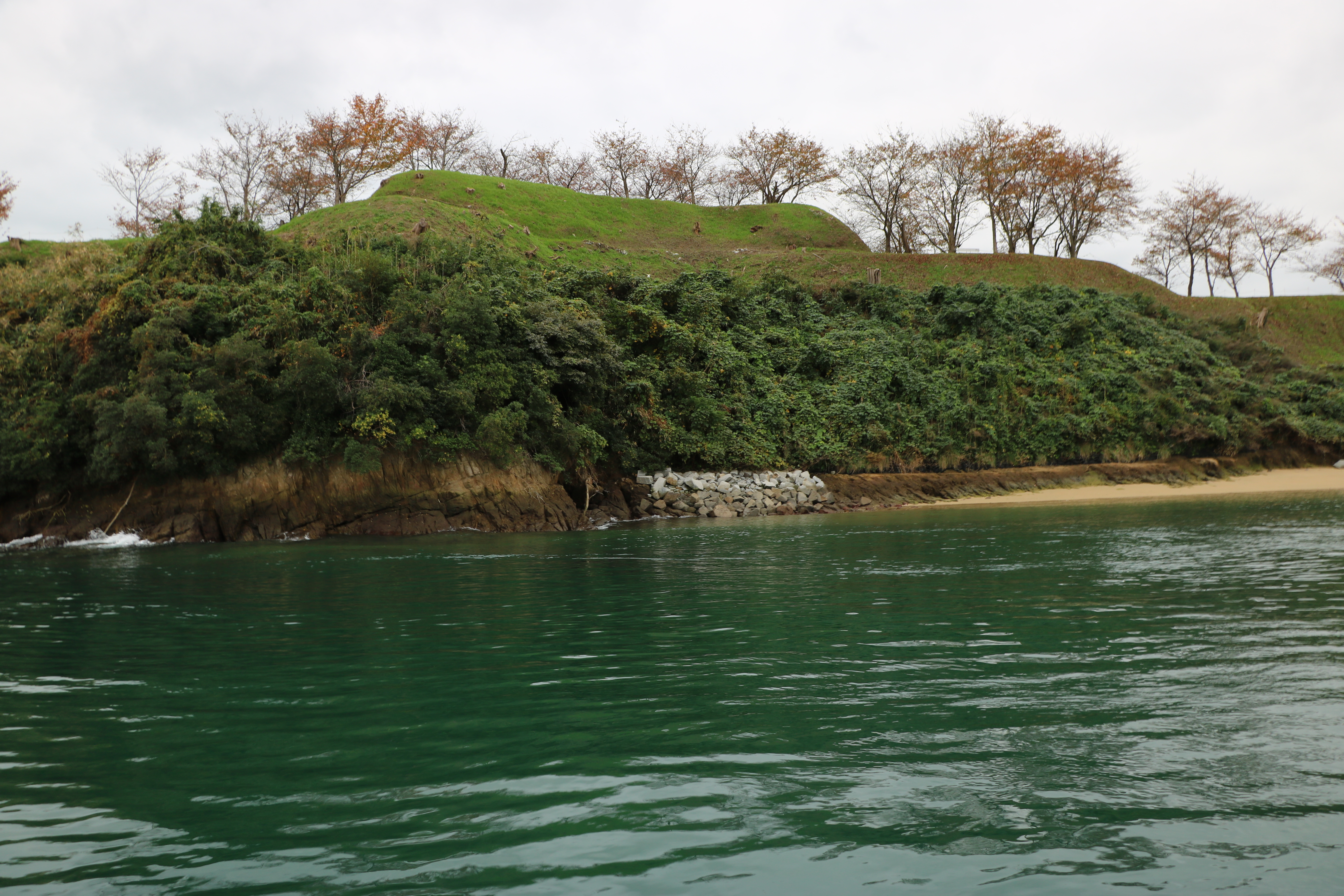 Noshima Castle Ruins.Shooting from the sea on the north side.